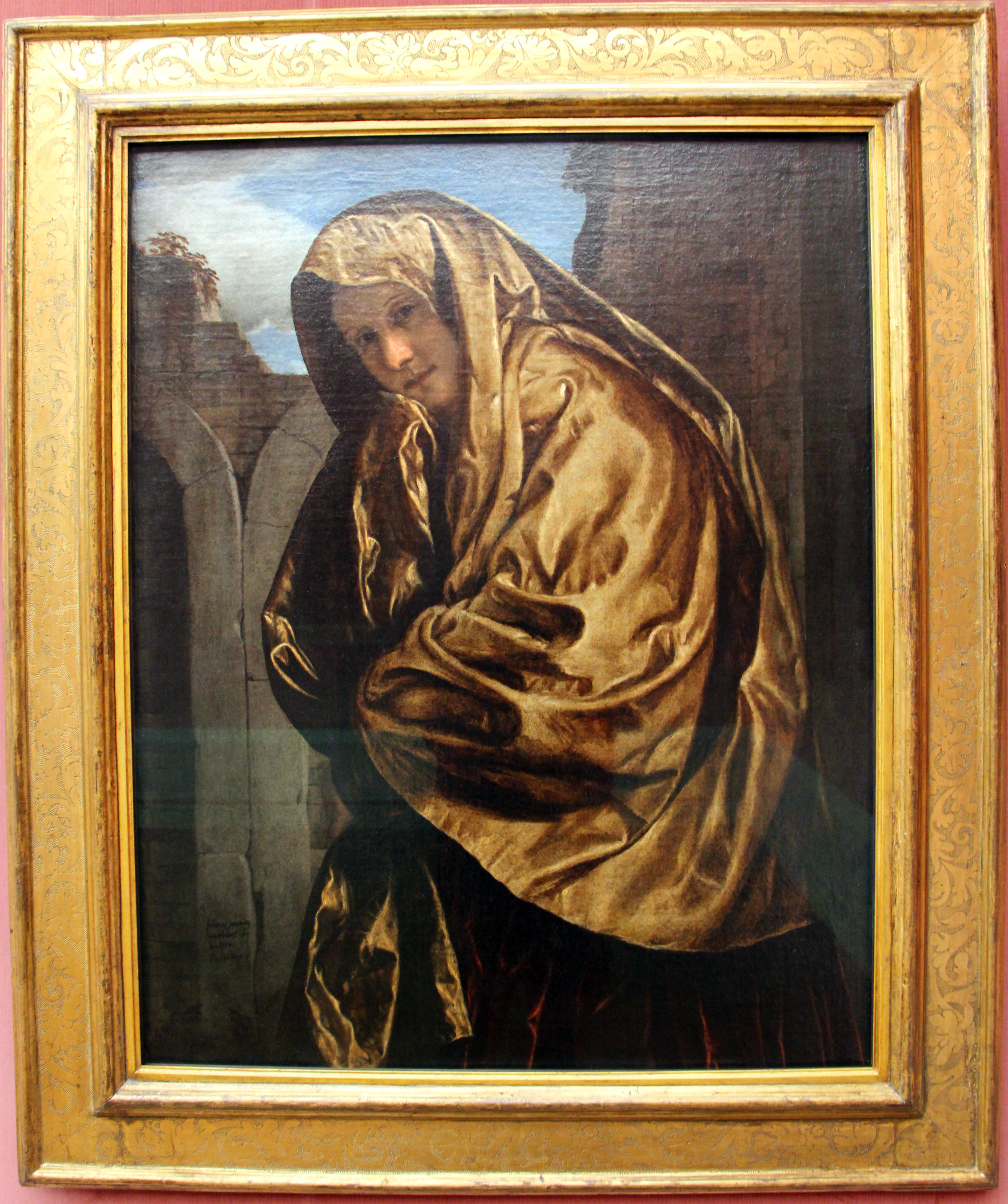 Italian Renaissance paintings in the Gemäldegalerie, Berlin